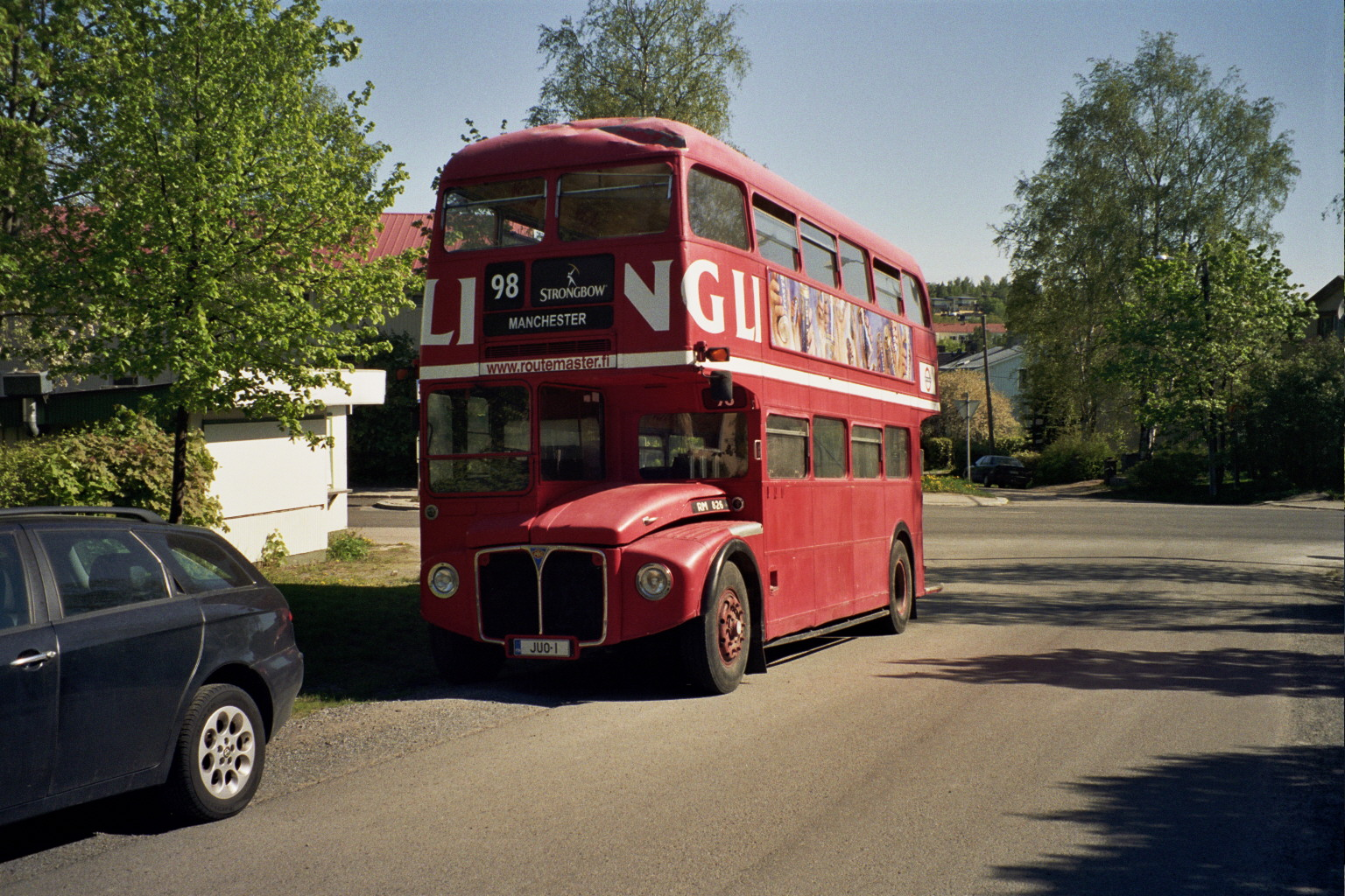 A Routemaster bus either in the Nekala or the Viinikka district of Tampere, Finland.